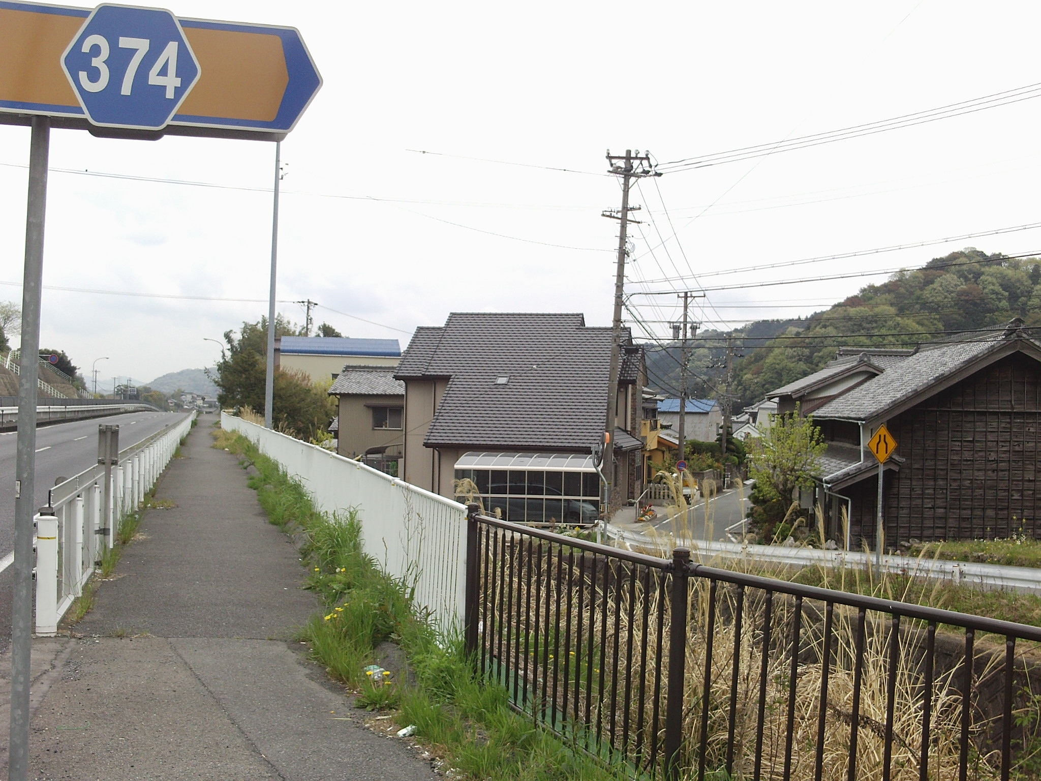 The Aichi Prefectural Road Route 374 in Nagasawacho, Toyokawa City